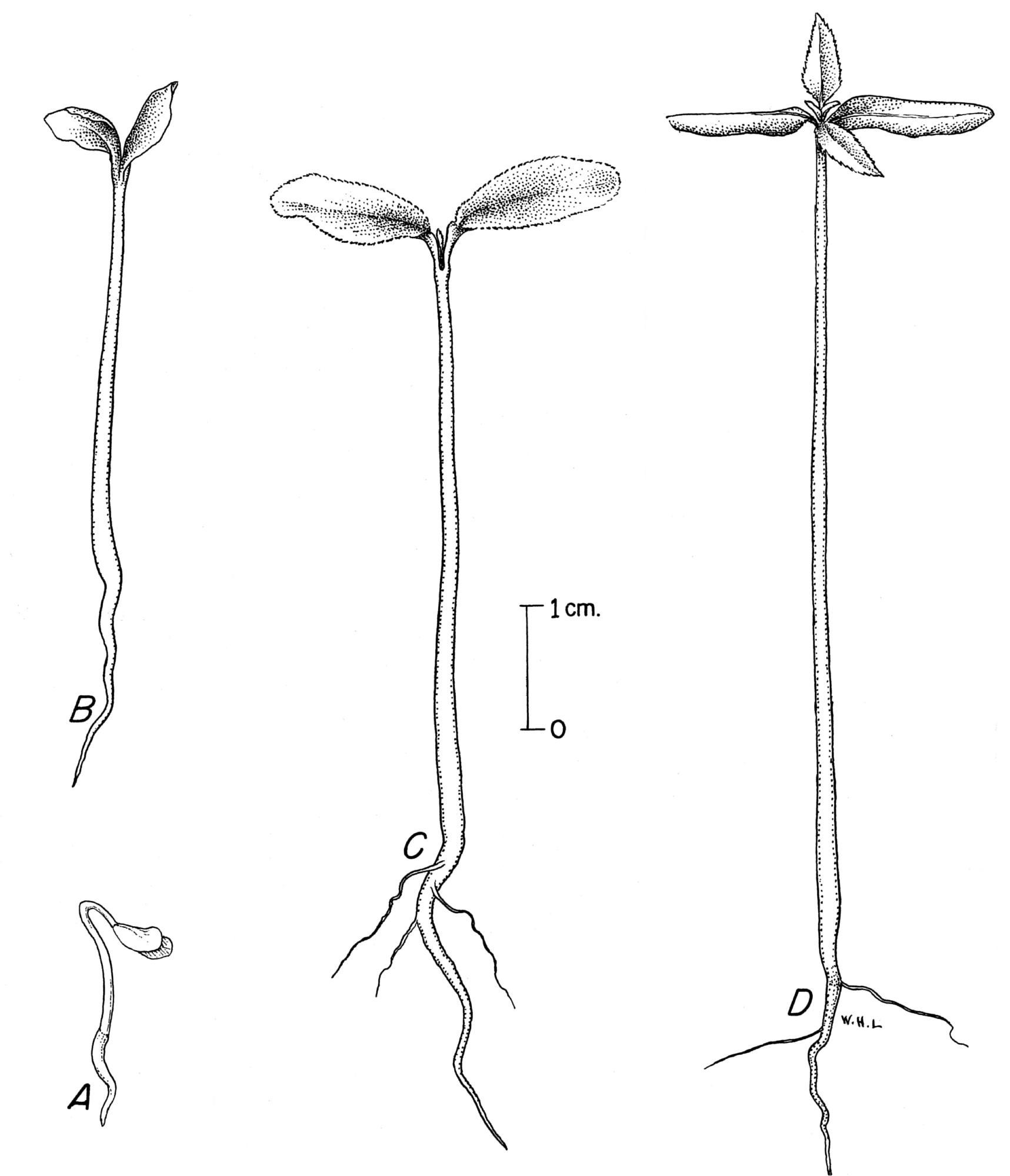 Zanthoxylum americanum